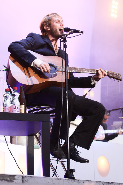 Sportfreunde Stiller at Novarock